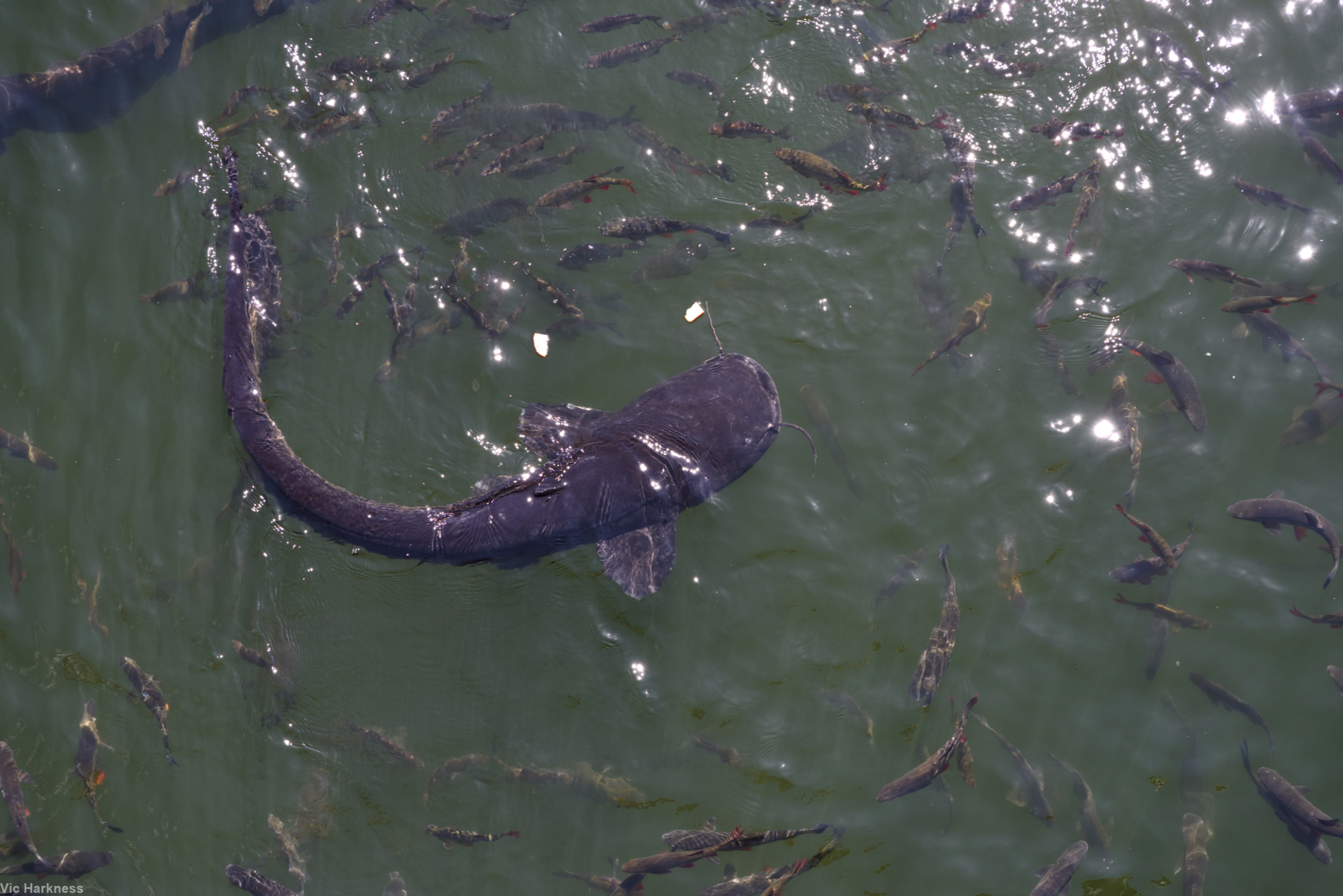 Massive catfish in the Chernobyl Nuclear Power Plant cooling pond.